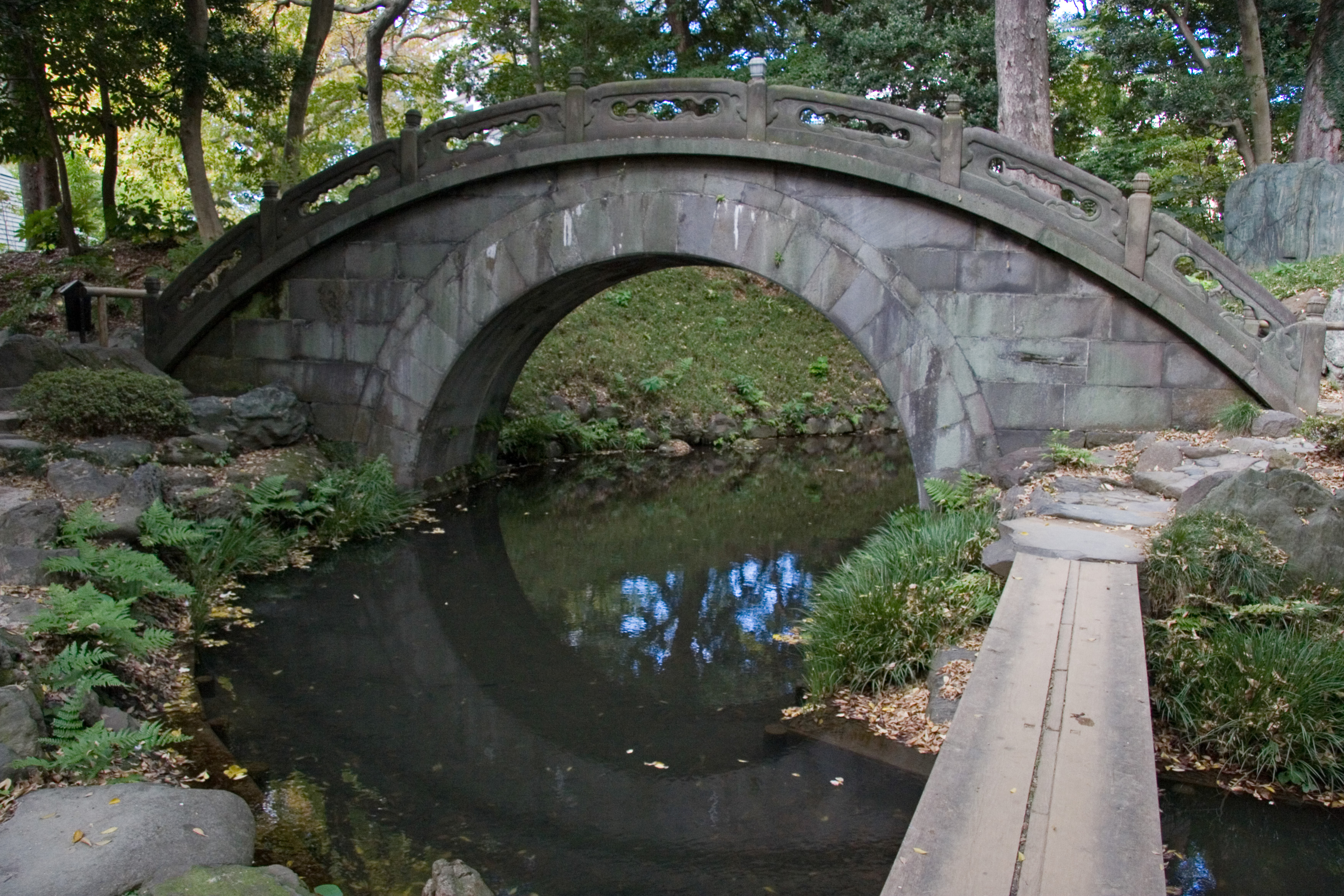 Koishikawa Korakuen garden - with Engetsu-kyo (full moon bridge). in Tokyo, Japan.